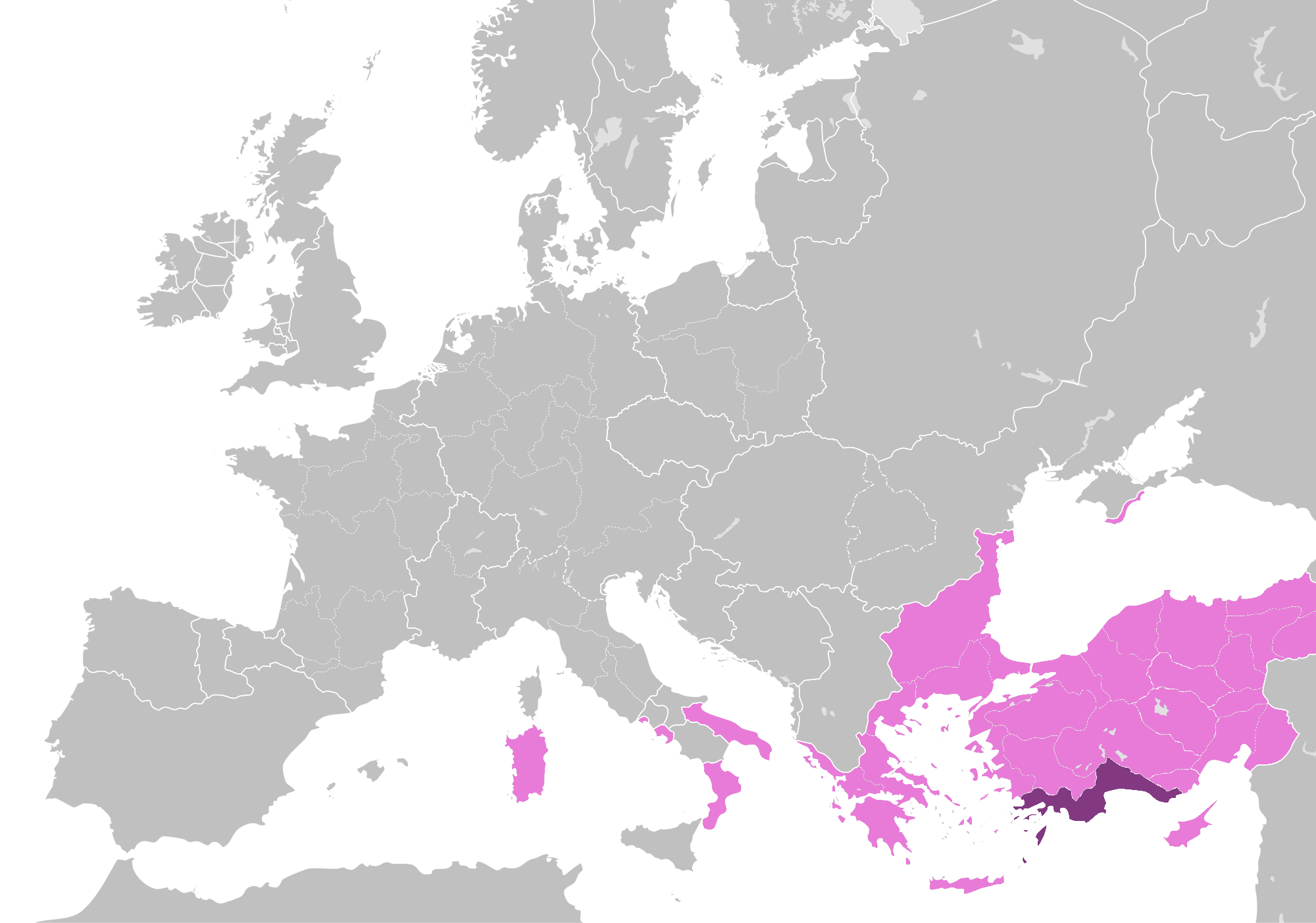 Map of the Cibyrrhaeots Theme within the Byzantine Empire in 1000 AD. Based on